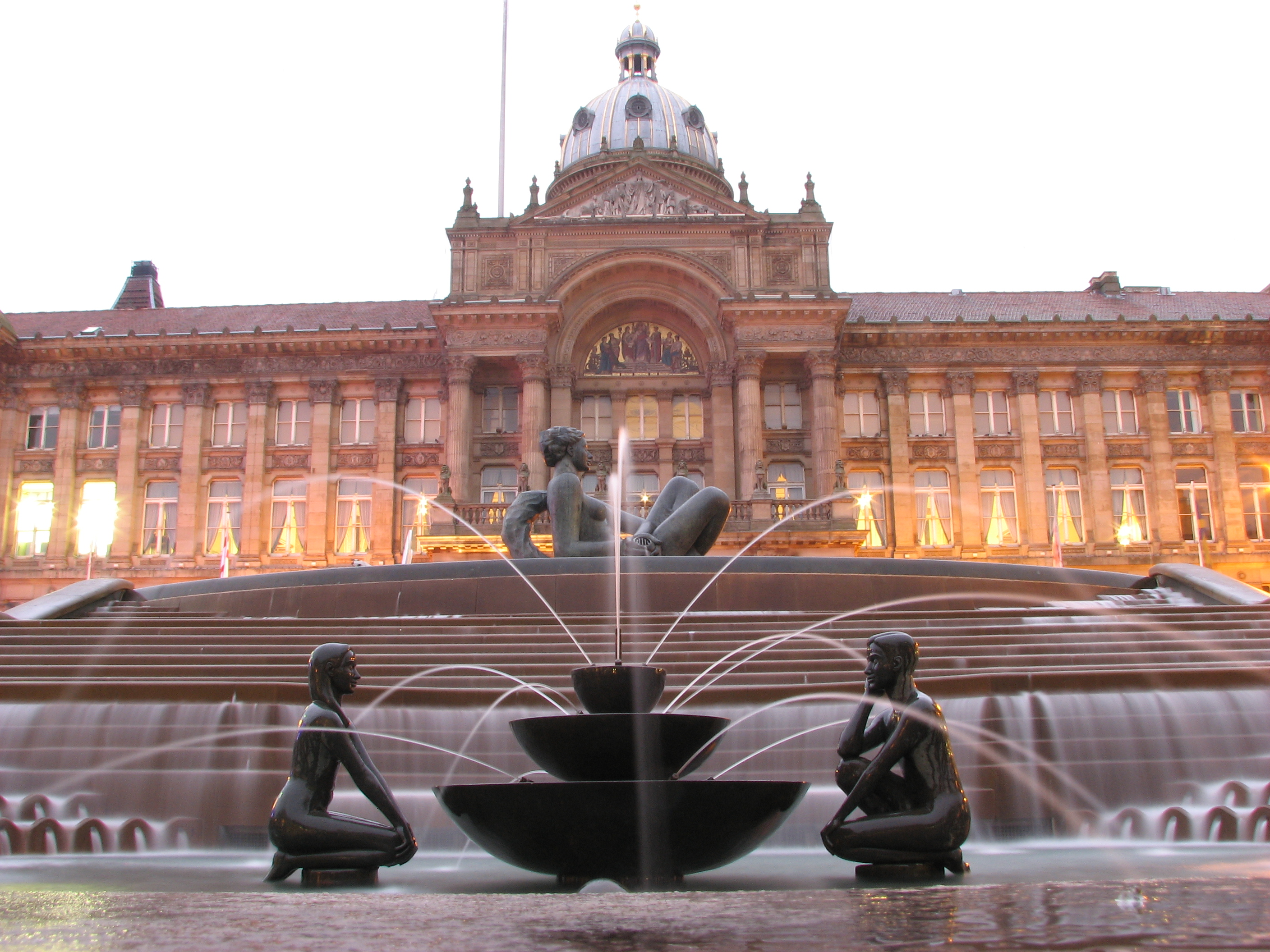 Victoria Square, Birmingham at dusk, showing the Council House, designed by Yeoville Thomason, and the sculptures The River and Youth by Dhruva Mistry.